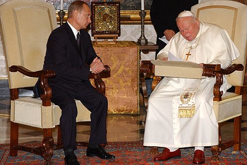 VATICAN CITY. President Putin with Pope John Paul II.